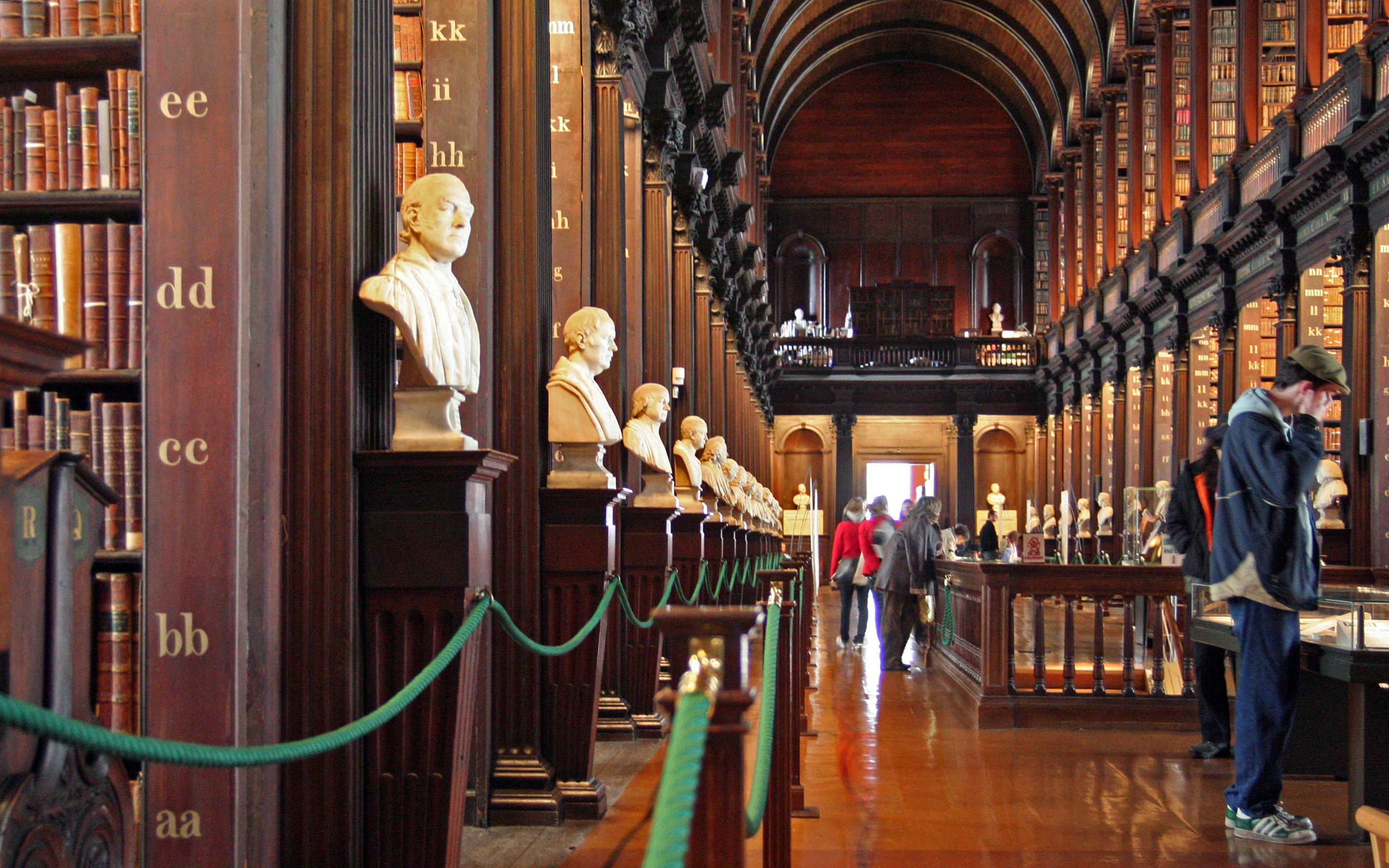 The 64-m-long “Long Room” at the old Trinity College Library in Dublin, builds in 1732.